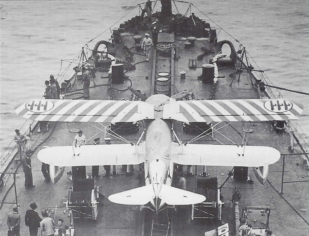 An IMAM Ro 43 on the bow catapult of a heavy class Zara cruiser.